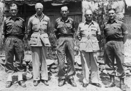 AWM caption : Korea. Senior Australian Army Officers in Korea 1953. Left to right: Lieutenant Colonel A.I. Macdonald, CO 3RAR; (Subsequently General Sir Arthur Leslie MacDonald, KBE, CB) Lieutenant General Sir Sydney Rowell, CGS; Brigadier J.G.N. Wilton, Commander, 28th British Commonwealth Infantry Brigade; (Subsequently General Sir John Wilton, KBE, CB, DSO) Lieutenant General H. Wells, Commander-In-Chief BCF Korea; Lieutenant Colonel G.F. Larkin, C.O. 2RAR.